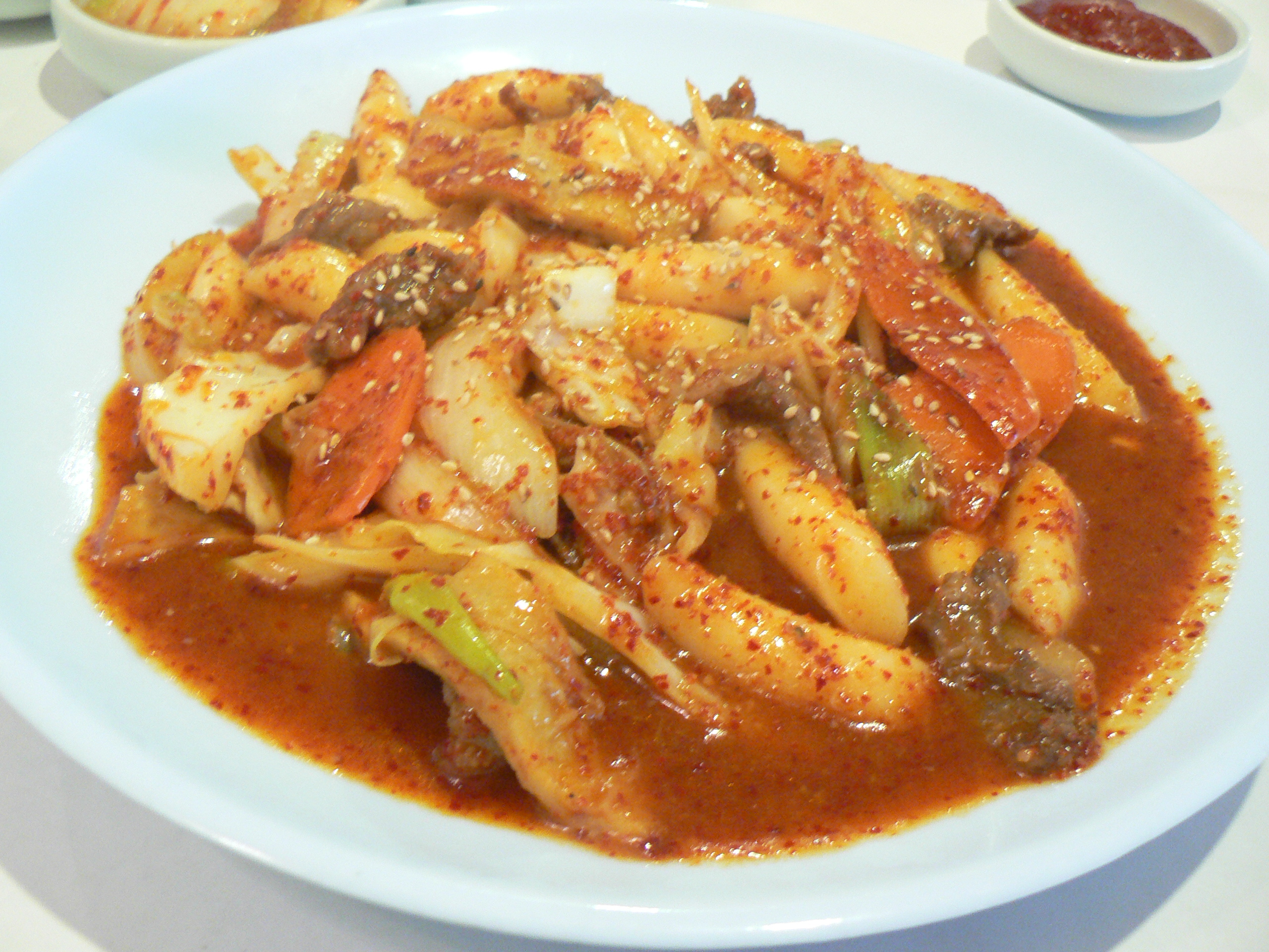 Ddeokbokki (panbroiled rice cakes with vegetables and fish pastes in hot spicy saute)